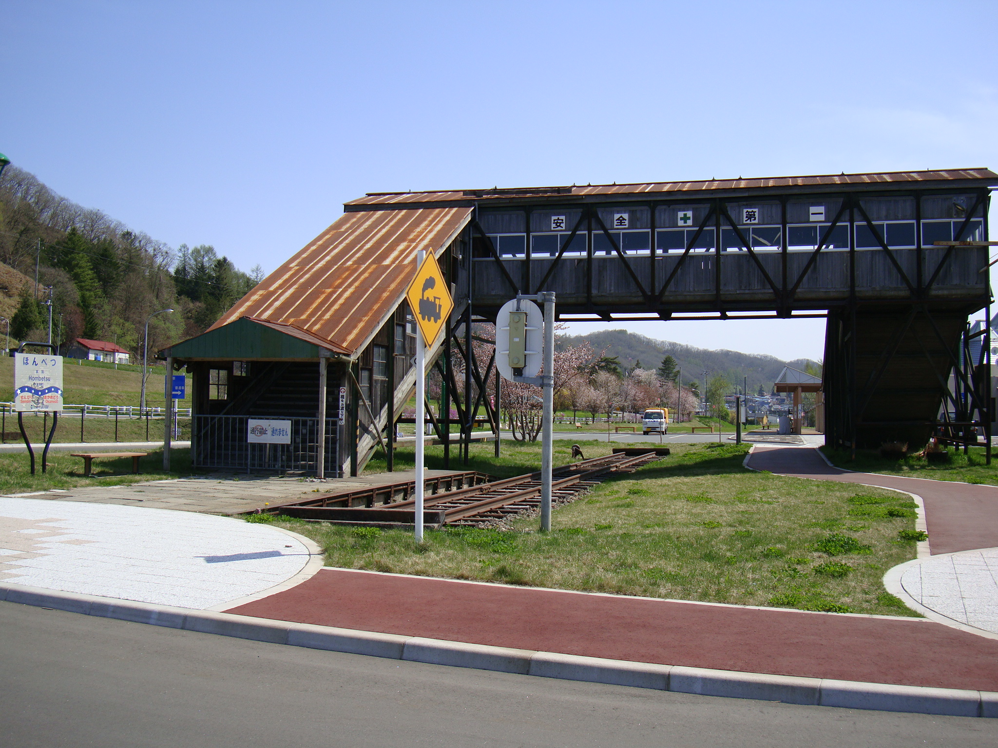 Michinoeki Stella Honbetsu, formerly Honbetsu Station